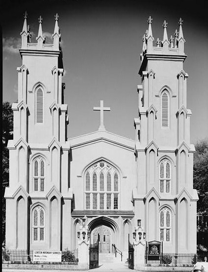 Trinity Episcopal Church, Sumter & Gervais Streets, Columbia (Richland County, South Carolina) - cropped This file comes from the Historic American Buildings Survey (HABS), Historic American Engineering Record (HAER) or Historic American Landscapes Survey (HALS). These are programs of the National Park Service established for the purpose of documenting historic places. Records consist of measured drawings, archival photographs, and written reports. When reusing please credit: Library of Congress, Prints & Photographs Division, SC,40-COLUM,14-1 This tag does not indicate the copyright status of the attached work. A normal copyright tag is still required. See Commons:Licensing. This work is in the public domain in the United States because it is a work prepared by an officer or employee of the United States Government as part of that person’s official duties under the terms of Title 17, Chapter 1, Section 105 of the US Code. Note: This only applies to original works of the Federal Government and not to the work of any individual U.S. state, territory, commonwealth, county, municipality, or any other subdivision. This template also does not apply to postage stamp designs published by the United States Postal Service since 1978. (See § 313.6(C)(1) of Compendium of U.S. Copyright Office Practices). It also does not apply to certain US coins; see The US Mint Terms of Use. This file has been identified as being free of known restrictions under copyright law, including all related and neighboring rights. Object location34° 00′ 03″ N, 81° 01′ 52″ W